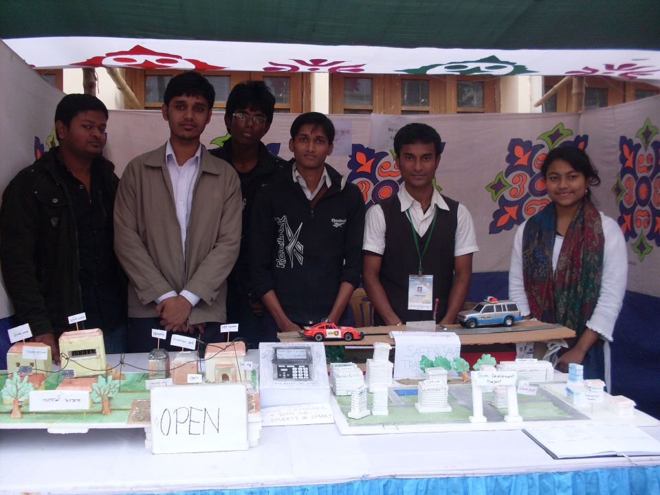 exhibition